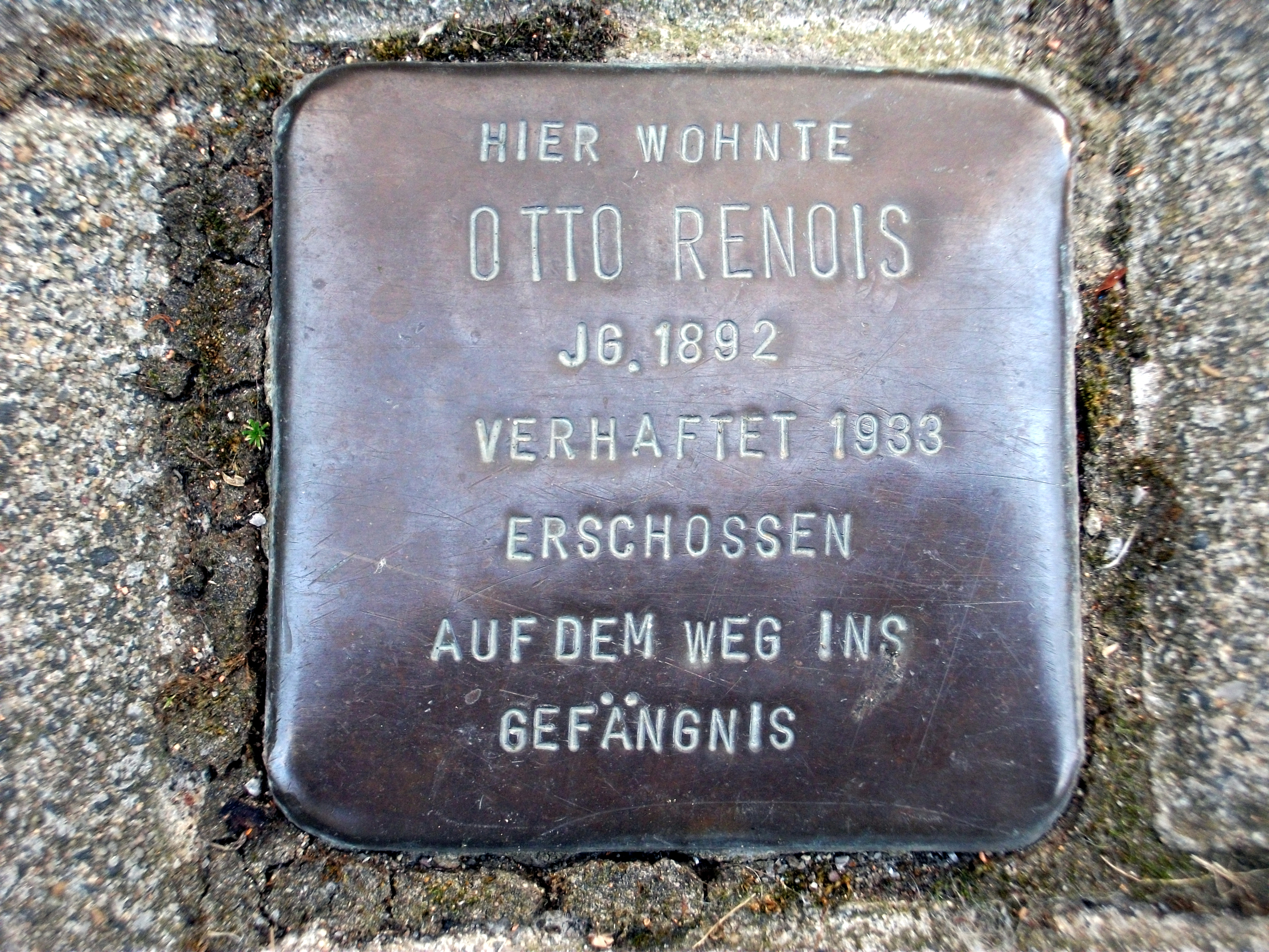 This image shows the Stolperstein for Otto Renois, a Bonn victim of the Nazi terror